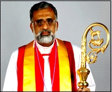 The 12th Bishop of CSI Madhya Kerala Diocese.